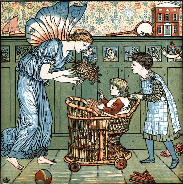 A fairy gives a bouquet of flowers to a child in a pram pushed by a girl.